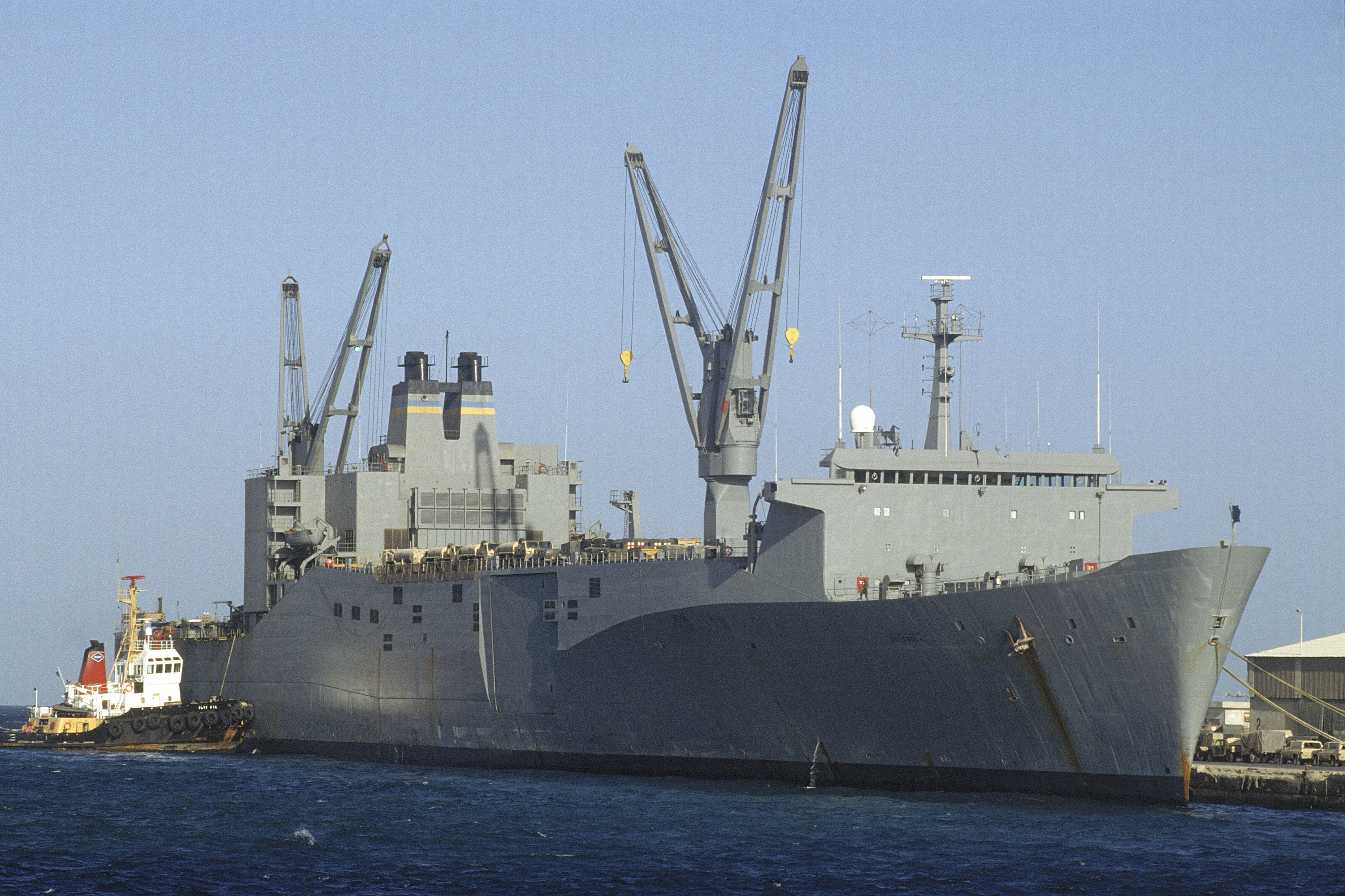 USNS Denebola (T-AKR-289) docked at the port of Mogadishu, Somalia awaiting loading of US troops and equipment for redeployment back to the United States.